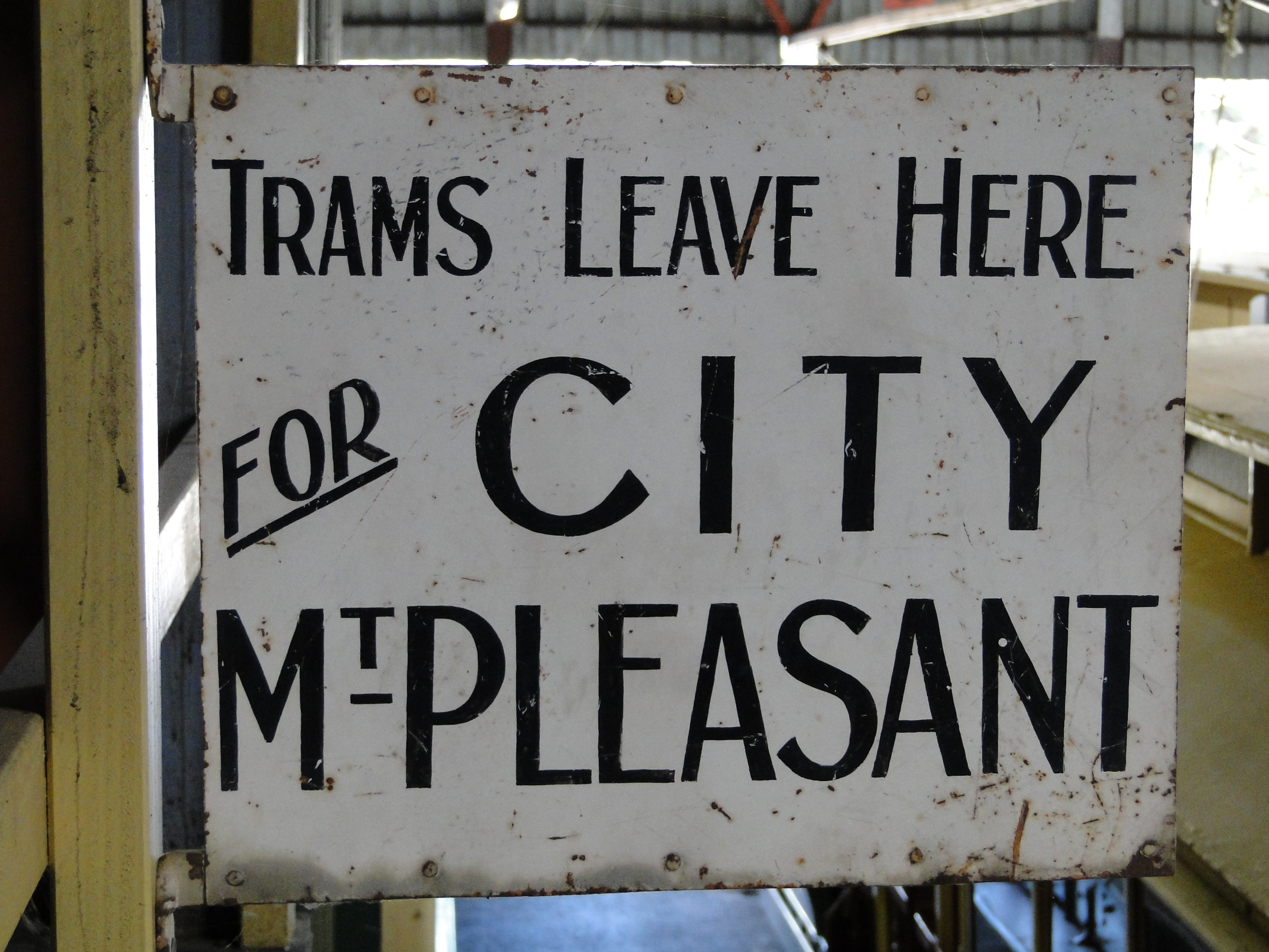 Old sign from the Ballarat tramways now at the Ballarat Tram Museum, Ballarat, Victoria, Australia.